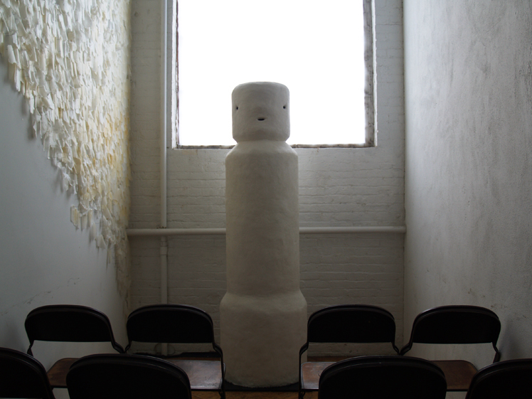 Totem installed at Issue Project Room